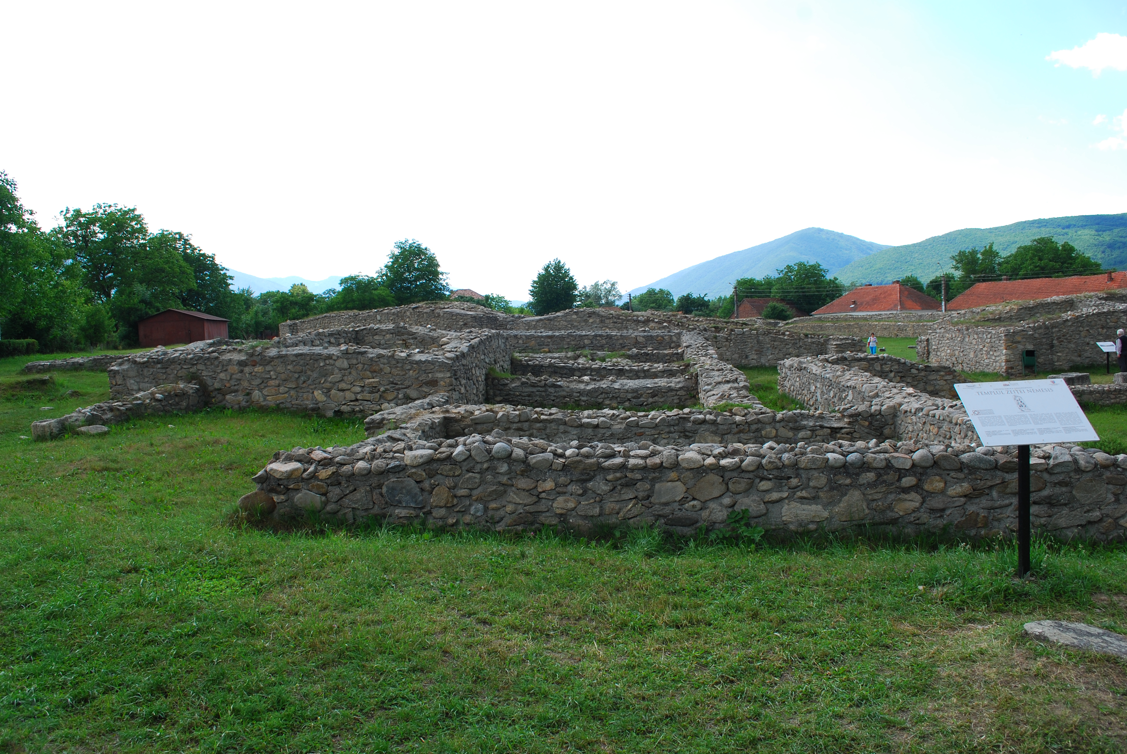 Nemesis' temple in Ulpia Traiana Sarmizegetusa, Hunedoara County, RomaniaRomână: Templul lui Nemesis de la Ulpia Traiana Sarmizegetusa, judeţul Hunedoara, România